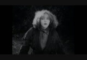 Mae Murray as "Dora" in the American silent film A Mormon Maid (1917). In the film, Dora is pursued by two men, one a recent convert and the other a scheming elder with several wives.